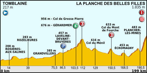 Profil of the 7th stage of the Tour de France 2012